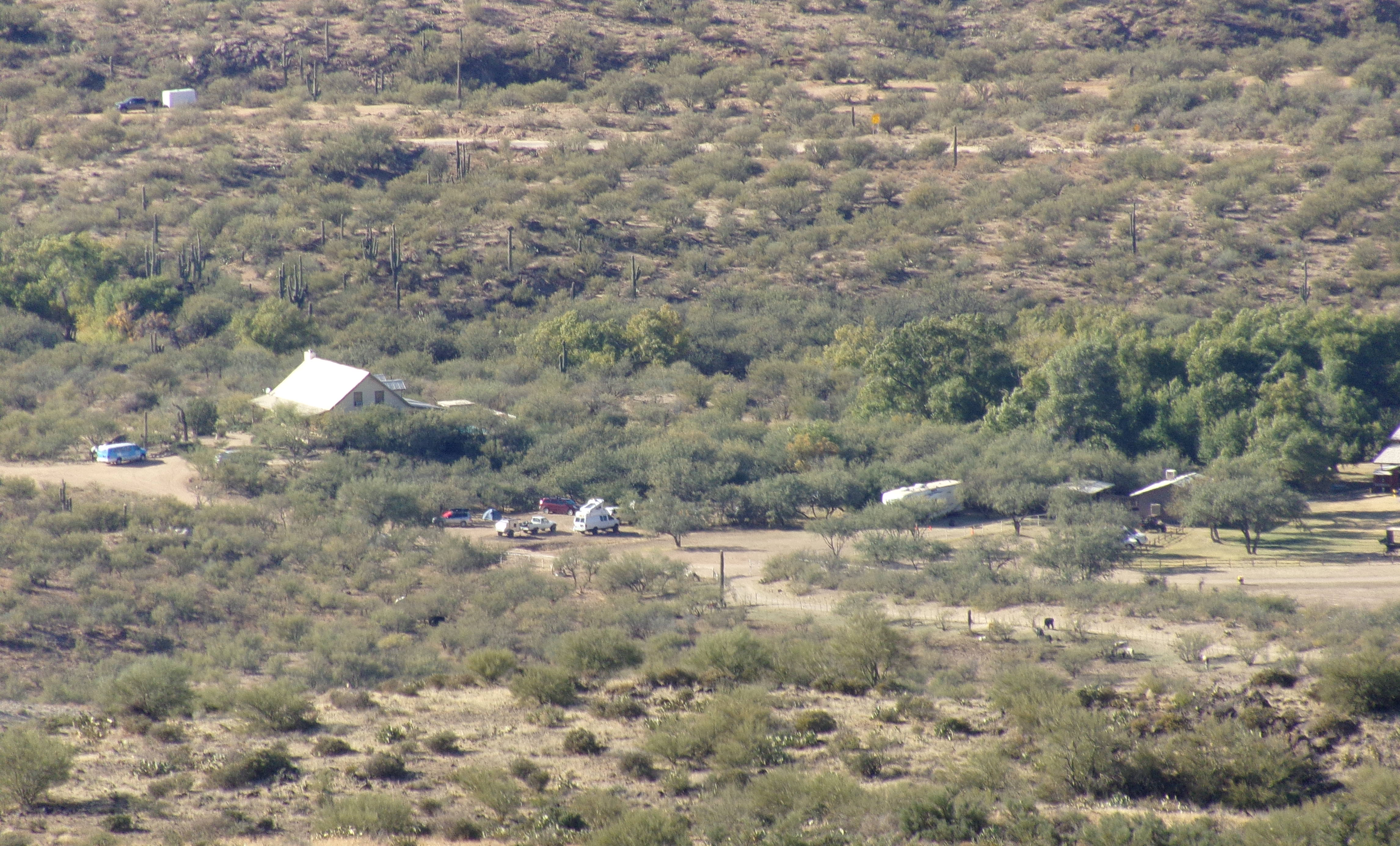 Phoenix Morning November 11th, 2017 Arizona Jeffrey Riehle